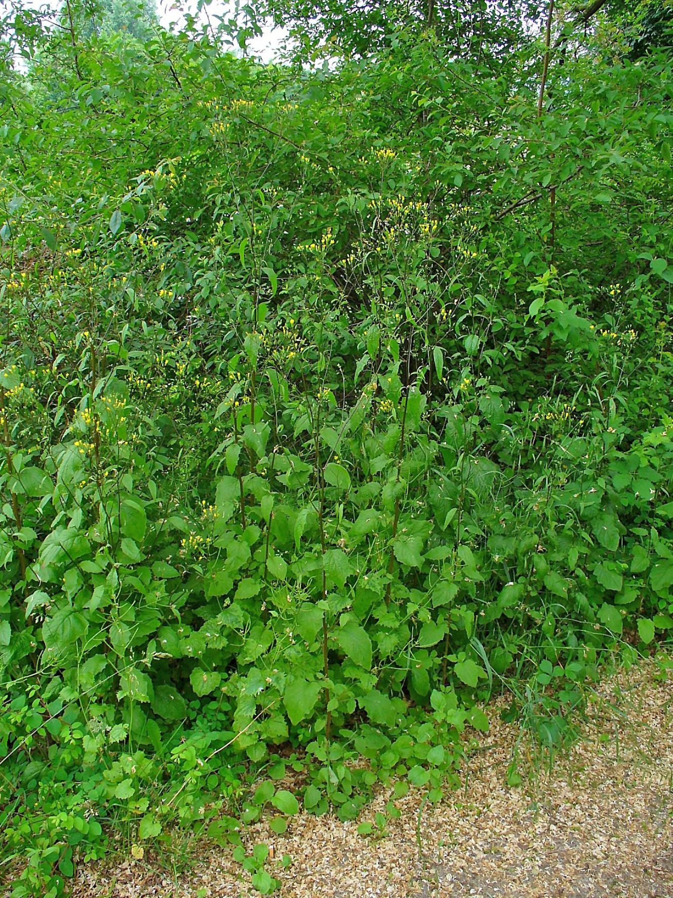 Lapsana communis, Asteraceae, Nipplewort, habitus; Karlsruhe, Germany. The plant is used in homeopathy as remedy: Lapsana communis (Laps.)